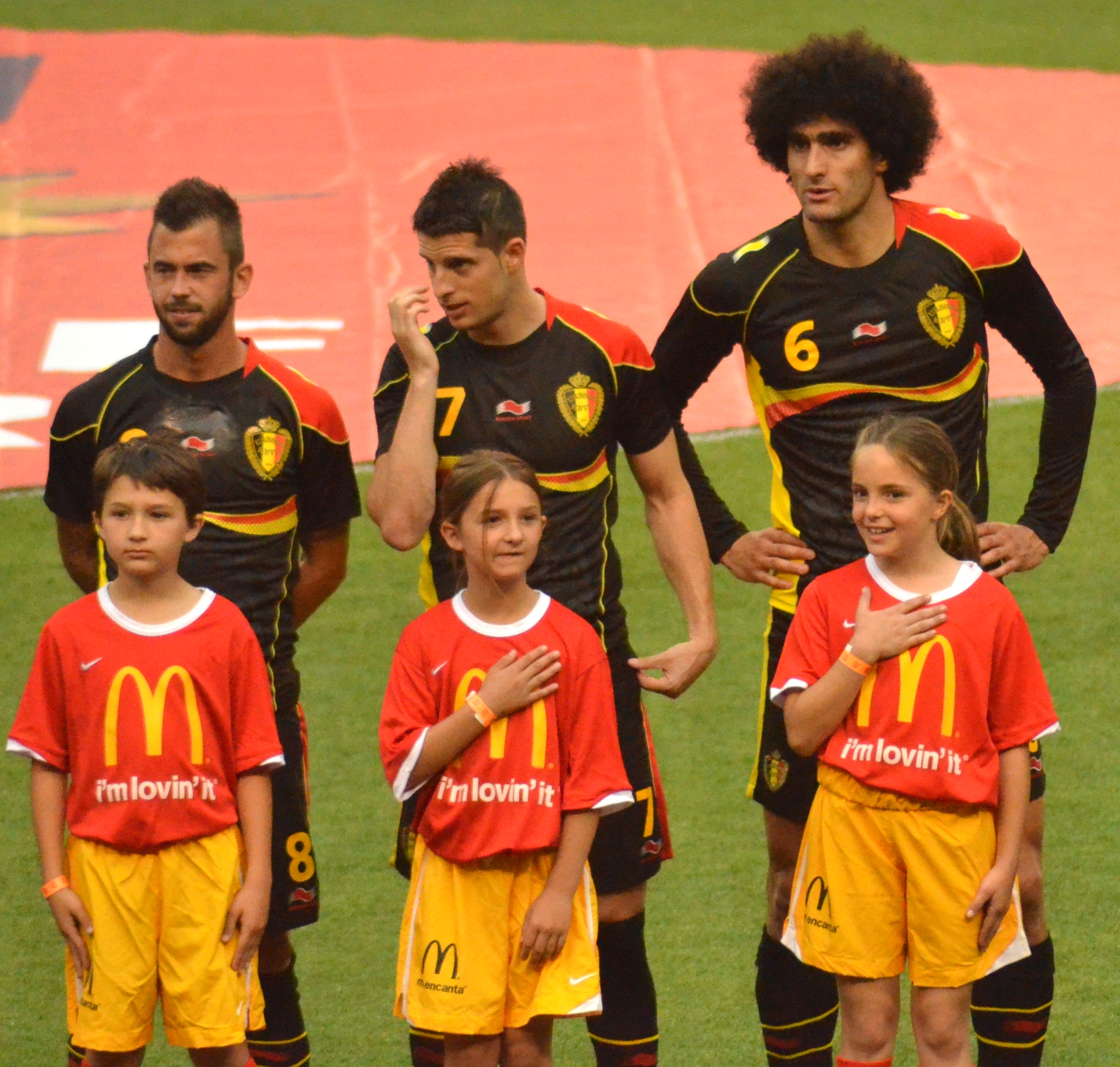 From left: Steven Defour, Kevin Mirallas and Marouane Fellaini before an international friendly against the United States.